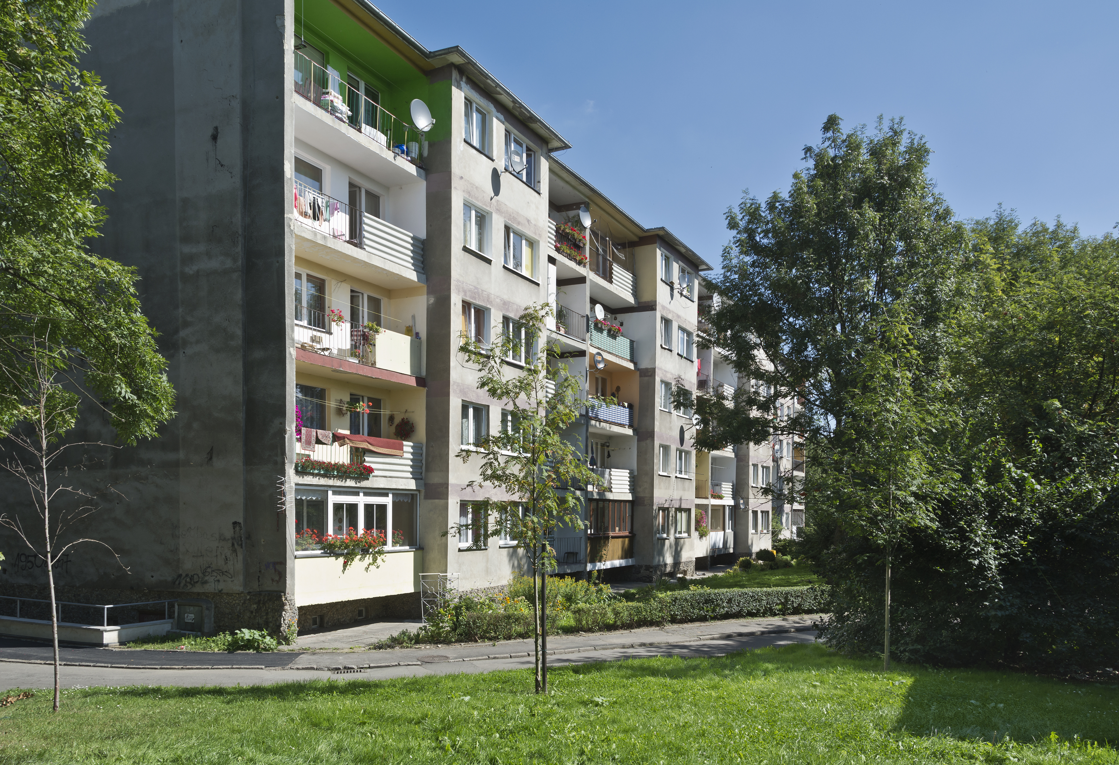 Malczewskiego Street in Kłodzko